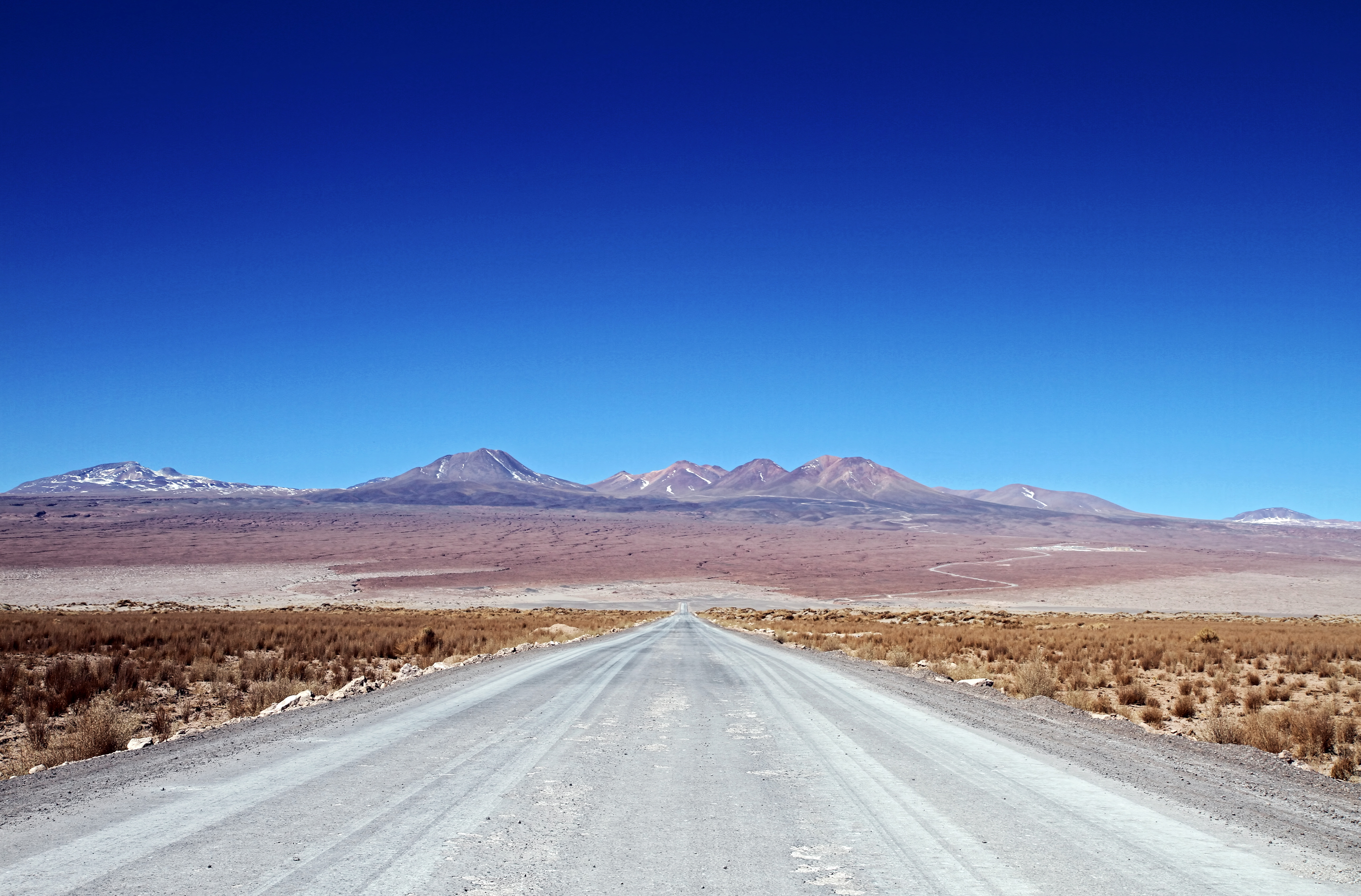 This photograph shows the road to the Atacama Large Millimeter/submillimeter Array (ALMA)’s Operations Support Facility (OSF) and then on further to the breathtaking Chajnantor Plateau at 5000 metres above sea level. The plateau, situated in Chilean Puna in the Atacama region, is home to the Array Operations Site (AOS) and is the site of the highest and driest astronomical observatory on Earth. The OSF is the centre of activities for the ALMA project and is where all staff and contractors are accommodated — only 2900 metres above sea level. This is where all the scientific operations related to the daily operation of the observatory take place. The AOS houses a technical building — the second highest building on Earth — along with the ALMA correlator, the highest and fastest computer ever used at an astronomical site. Due to the high altitude, human operations are kept to a minimum. ALMA will address some of the deepest questions of our cosmic origins as it explores the cool Universe – in particular molecular clouds, star formation and planetary systems.